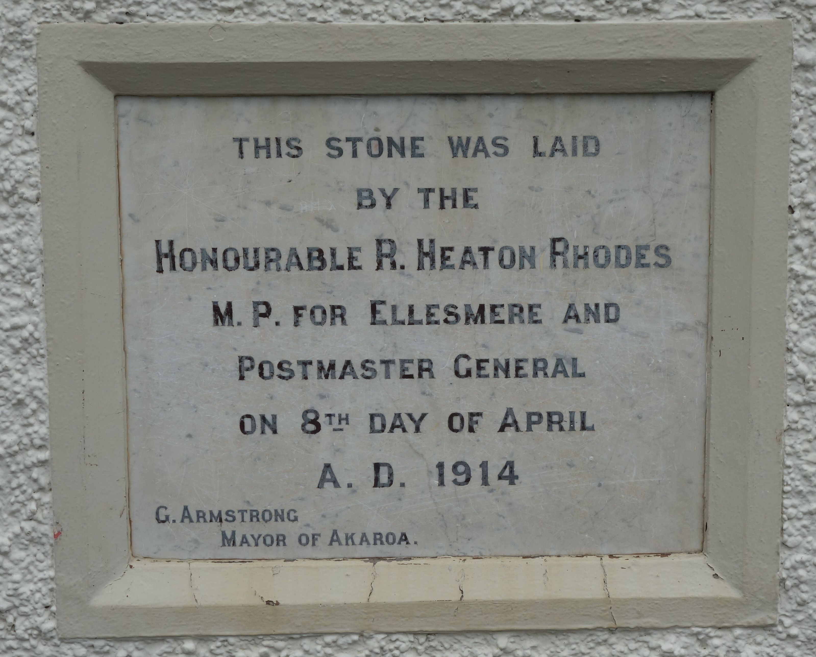 Visit to Akaroa in December 2015